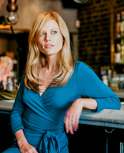 Photo by Devin Pedde